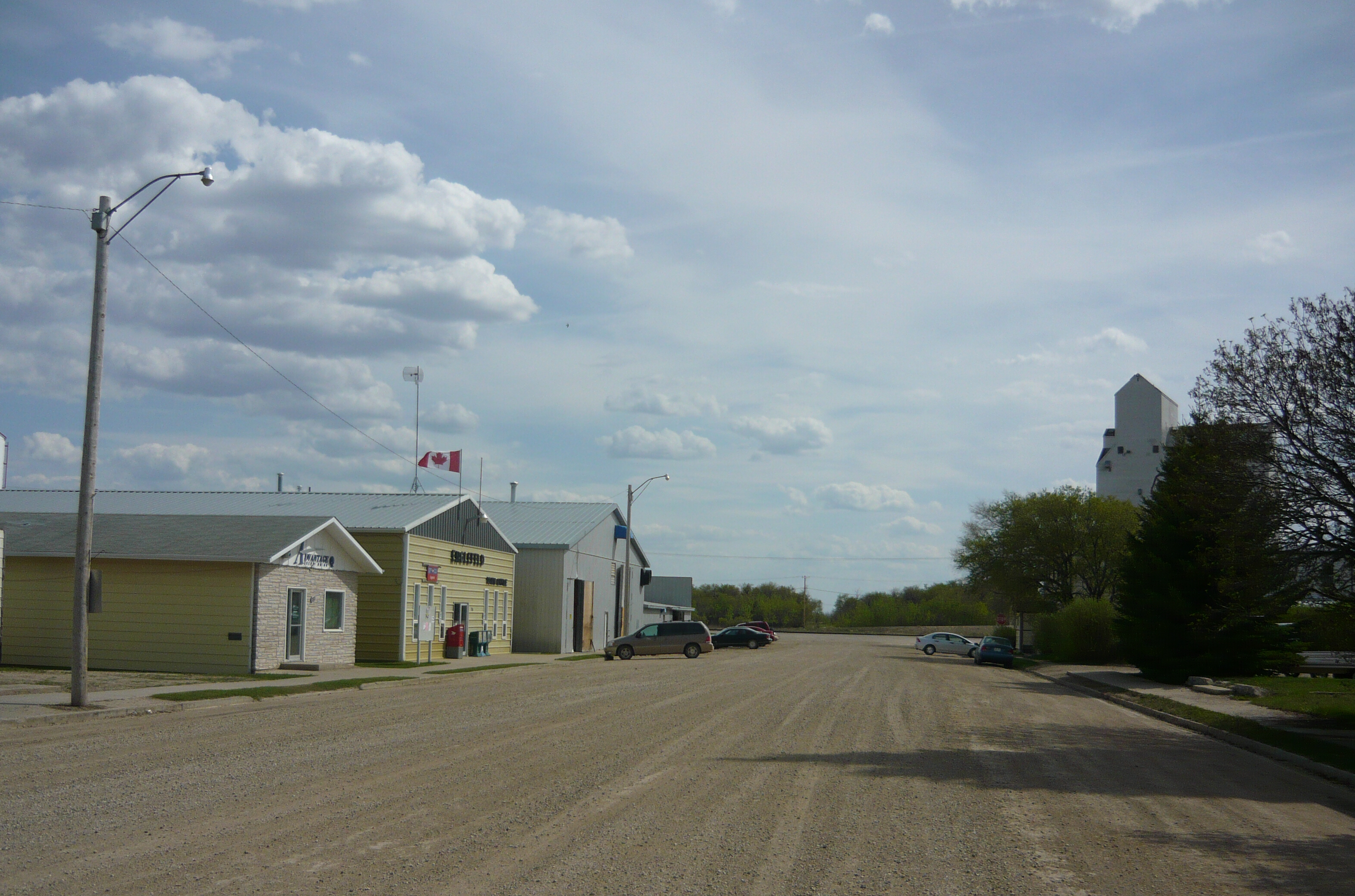 Main Street (at 1st Street, looking southward), Englefeld, Saskatchewan, Canada